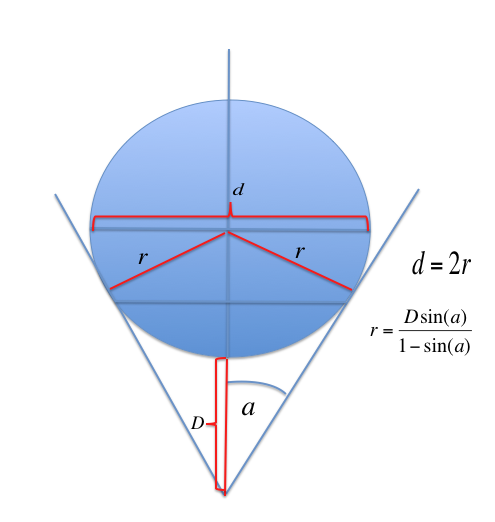 Diagram of the process used to measure the diameter of a tree trunk remotely.